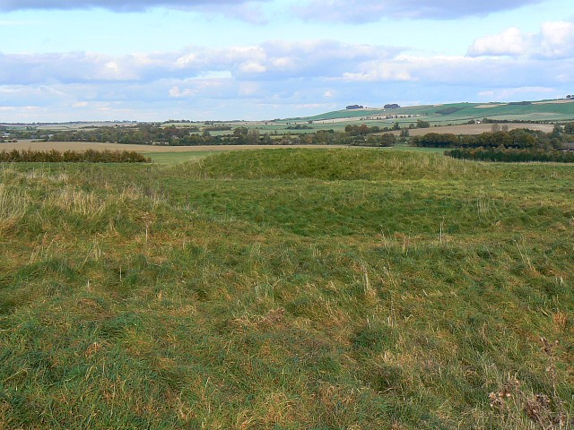 The eastern edge of Windmill Hill, near Winterbourne Monkton I'm not entirely sure of the identity of the features in the foreground. The information boards at the entrances to the hill refer to quarries and saucer barrows at this location. However, from looking at the aerial views I think these are the quarries. It would be nice sometime to visit here with someone with expert knowledge of what is here.